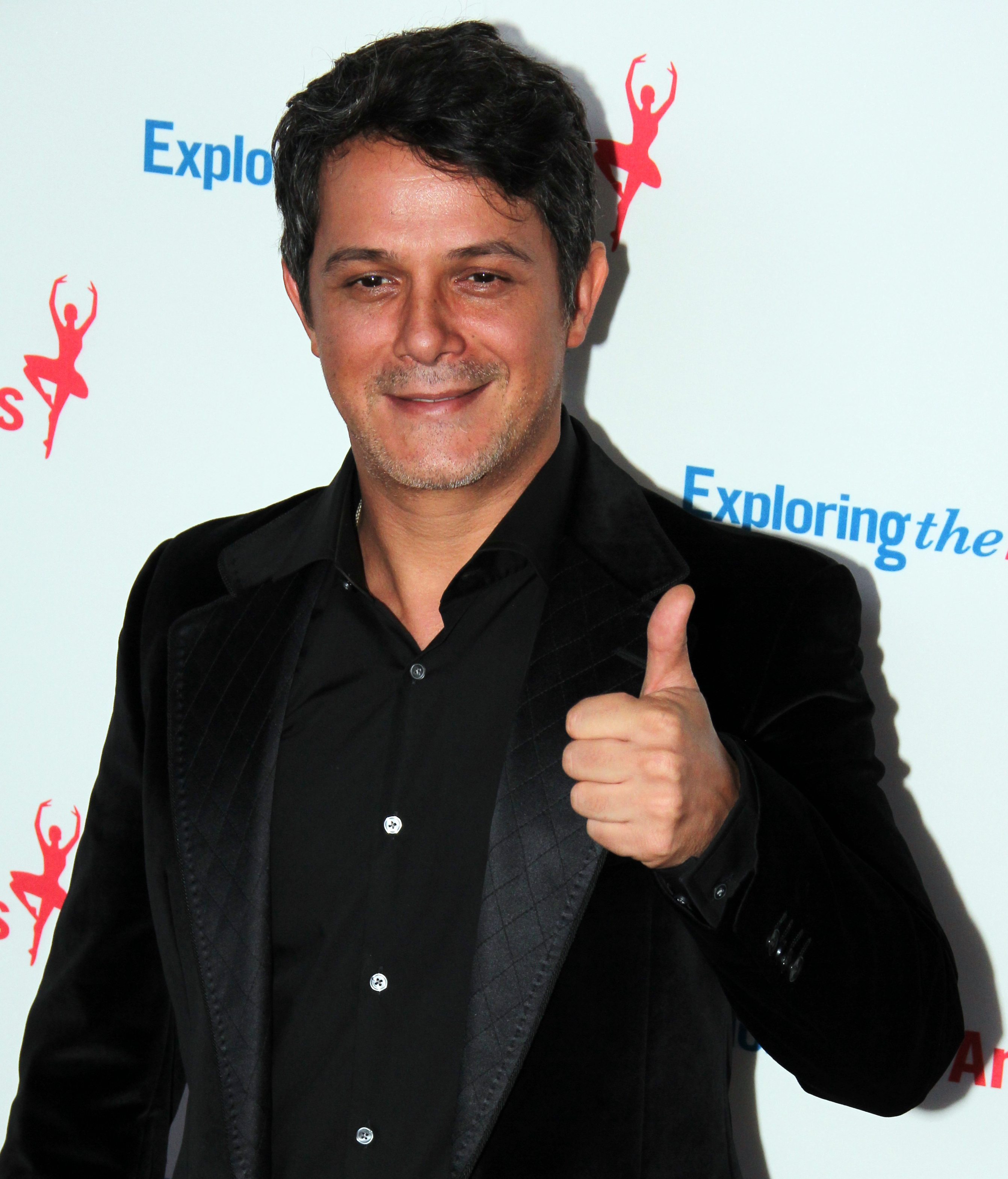 Alejandro Sanz at the Tony Bennet Birthday Gala 2011.